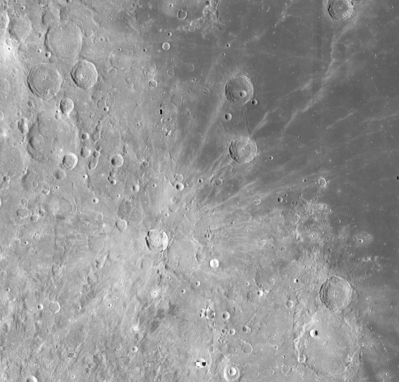 Crater Glushko with ray system (detail of LROC - WAC global moon mosaic)